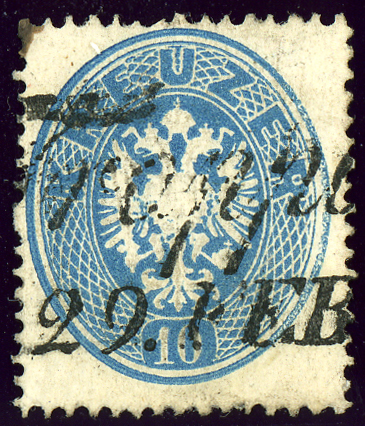 Austrian KK 10 kreuzer stamp, issue 1863, narrow dent., cancelled at TROPPAU, Silesia (Czech Republic). Mueller type sL-I.